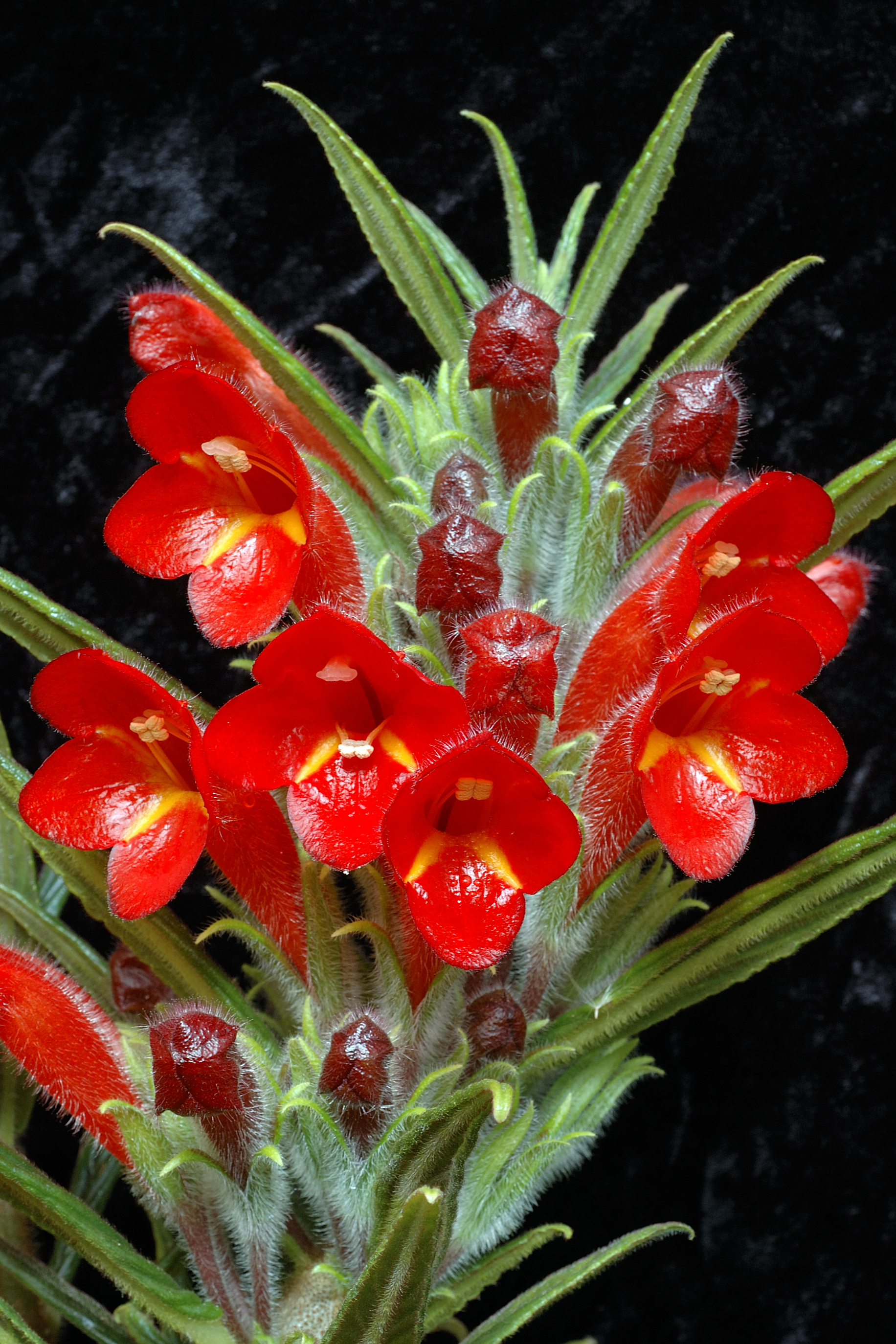 Columnea flexiflora, species from Ecuador.